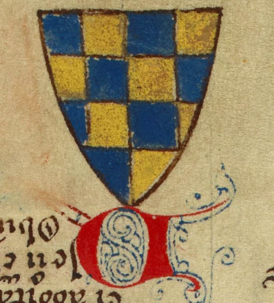 Shields William, earl of Warenne.